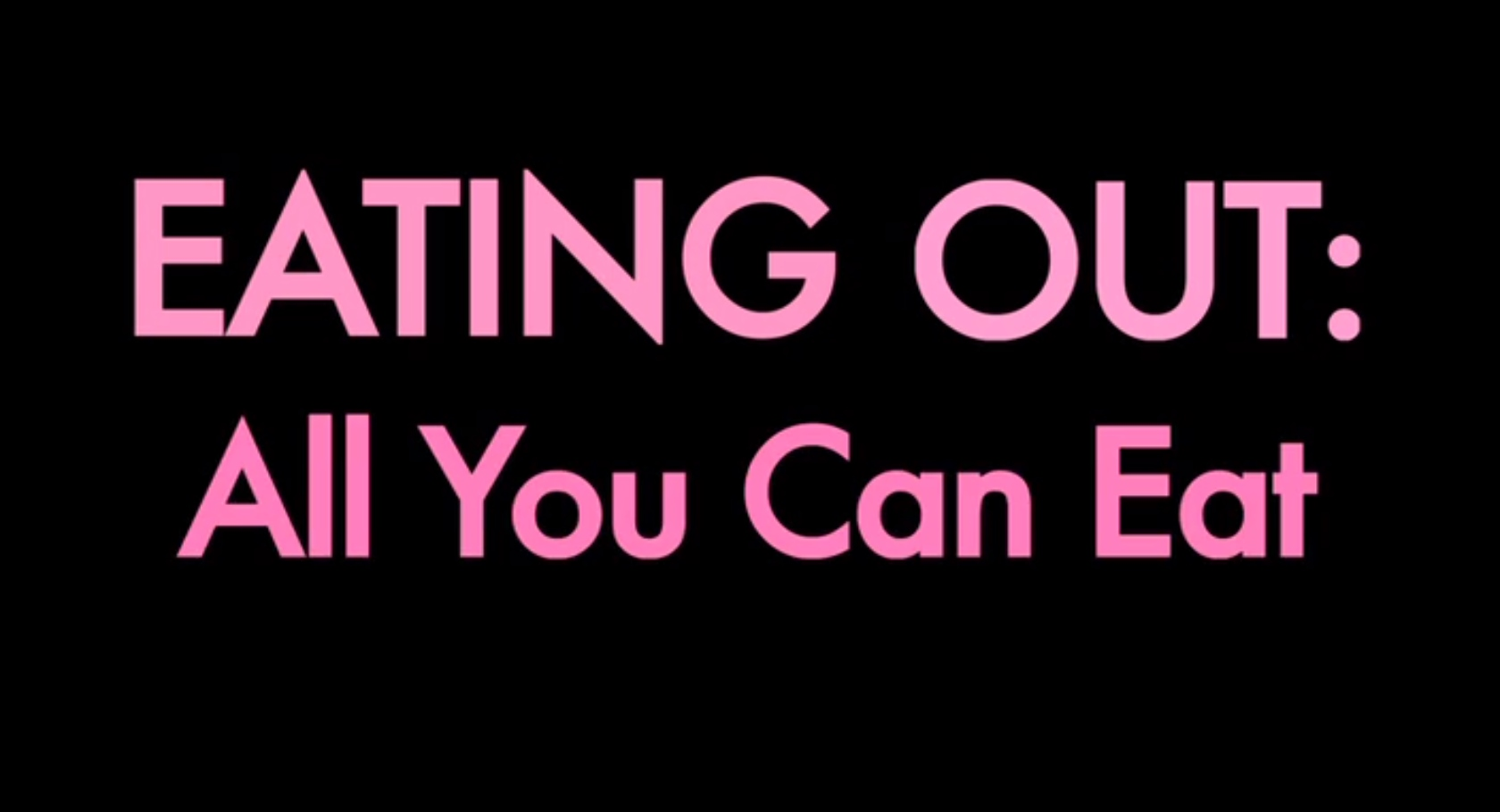 Opening title of Eating Out: All You Can Eat